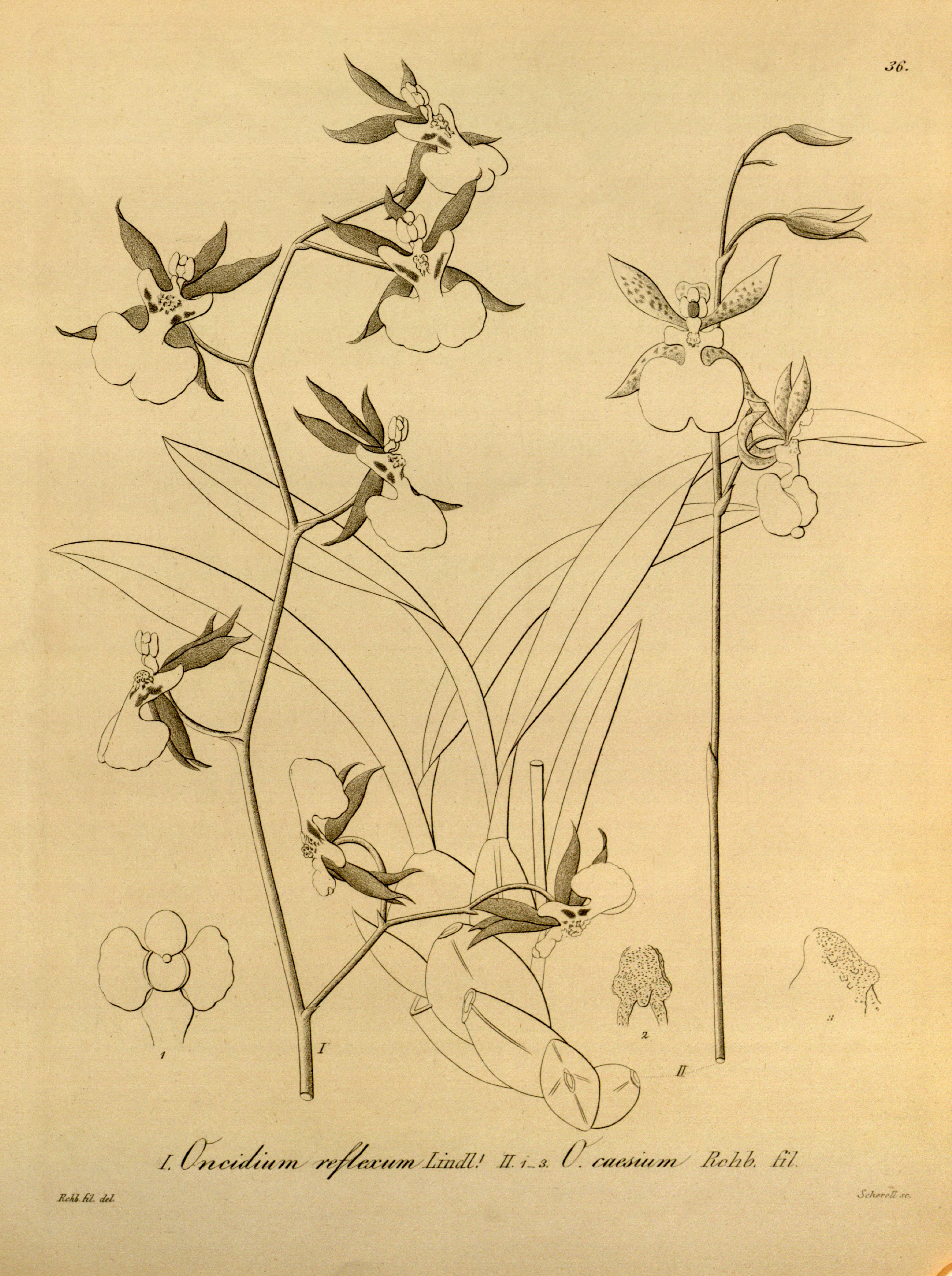 Illustration of: I. Oncidium reflexum II. Oncidium geertianum (as syn. Oncidium caesium)